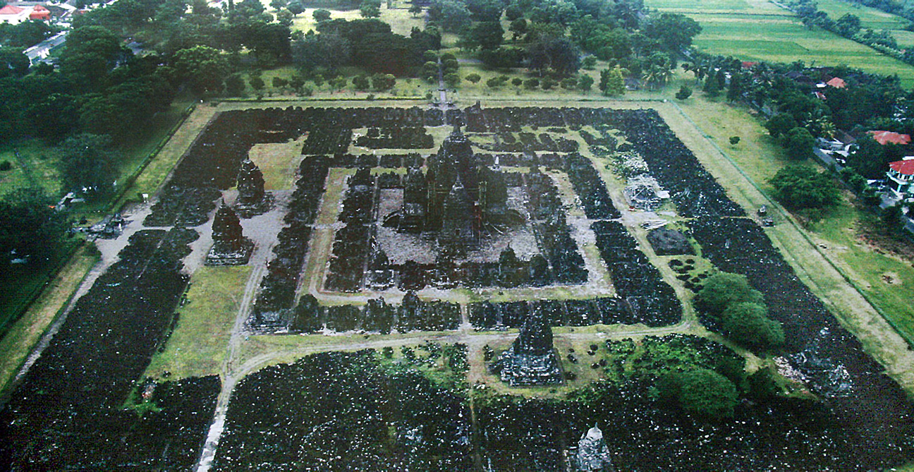 Aerial view of Sewu temple near Prambanan shows the mandala layout of the main temple surrounds by smaller perwara temples.